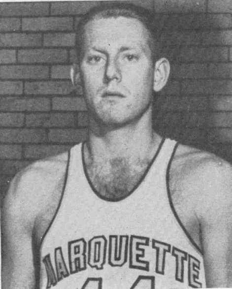 Marquette University basketball player Don Kojis in 1960